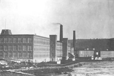 The textile mill, circa 1900, in Magog, Quebec, Canada.